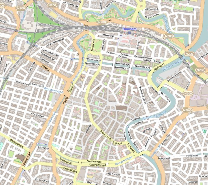 Map of Haarlem Center including Leidsevaart and Bavo Cathedral Geographic limits of the map: N: 52.3909° S: 52.3741° W: 4.6201° E: 4.6511°